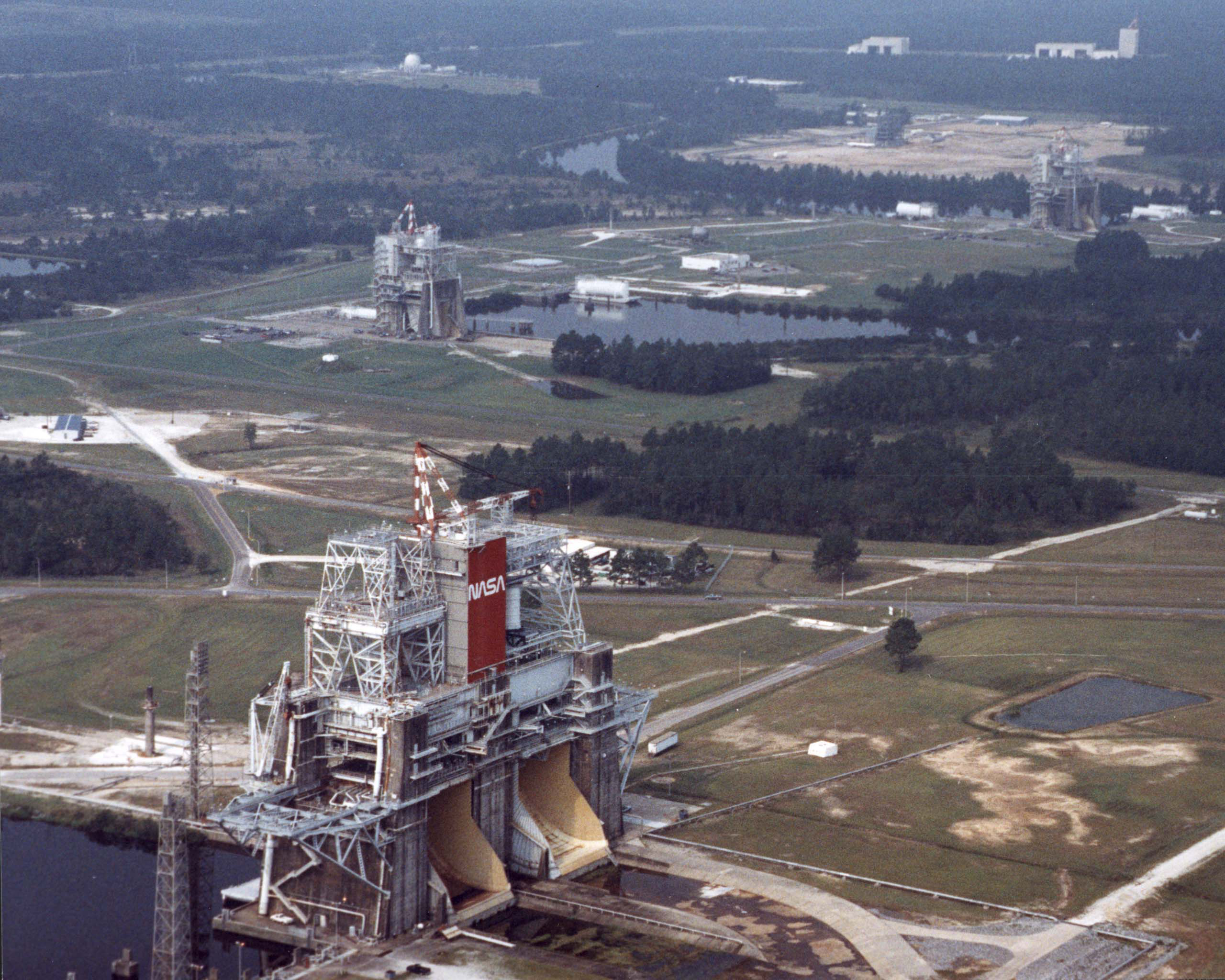 Pictured is the John C. Stennis Space Center's propulsion testing complex. In the foreground is the center's largest Test Stand the B-1, along with the A-2 and A-1 stands. These test stands are used to test the Space Shuttle Main Engines. In the distance can be seen the E-1 Test Facility. It is here that fuel tanks and materials for future spacecraft are tested.